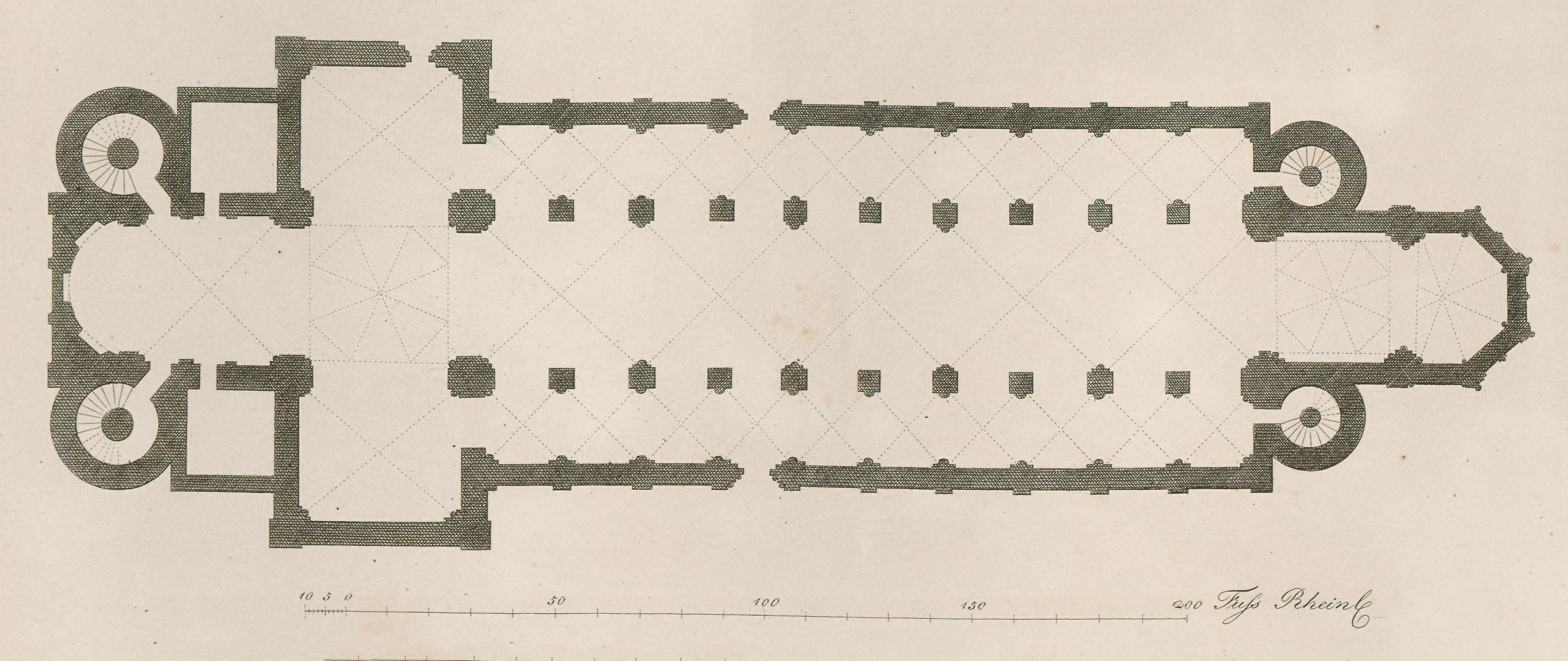 Floor plan of Worms Cathedral.